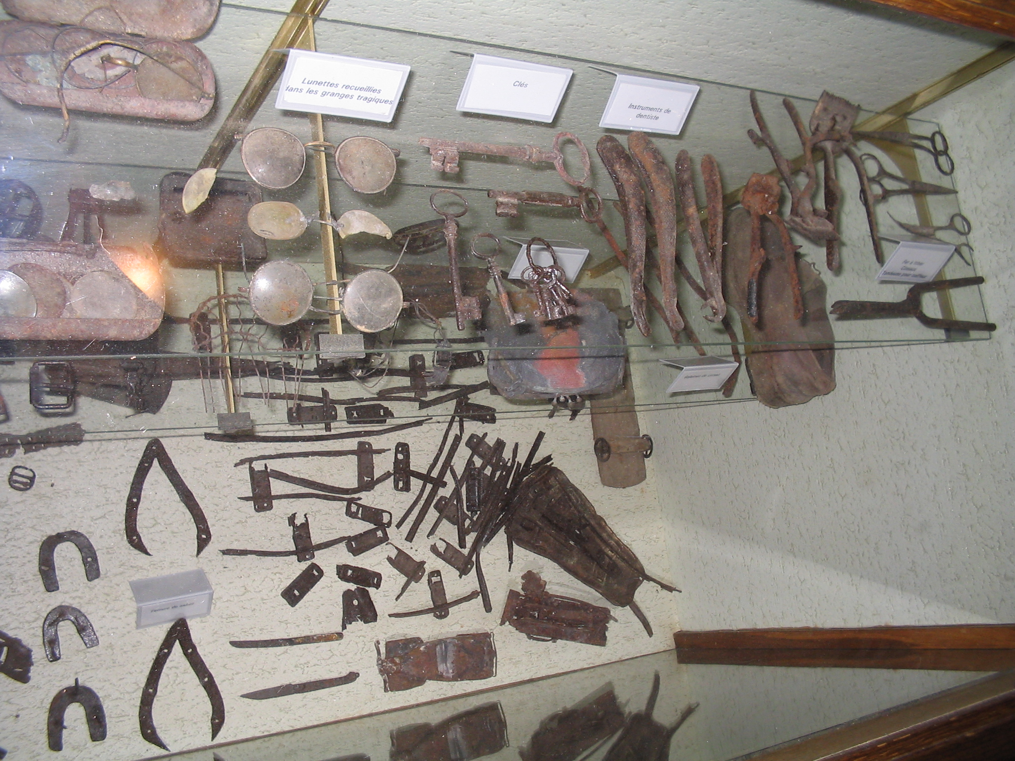 Items found in Oradour-sur-Glane. Here are various items found after the destruction - glasses, keys, scissors etc. These are on display in the nearby underground museum called the "Tomb". This is a photograph which I took during a visit to the French village Oradour-sur-Glane on June 11 2004, exactly 60 years after its destruction by the German army during World War II.